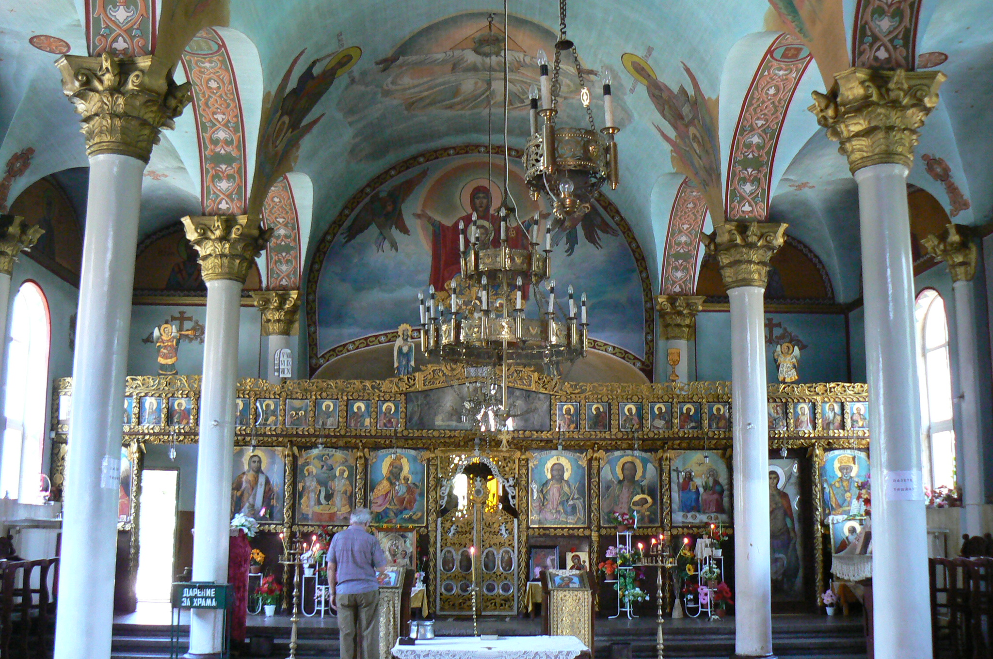 Sts. Cyril and Methodius Church in Montana, Bulgaria